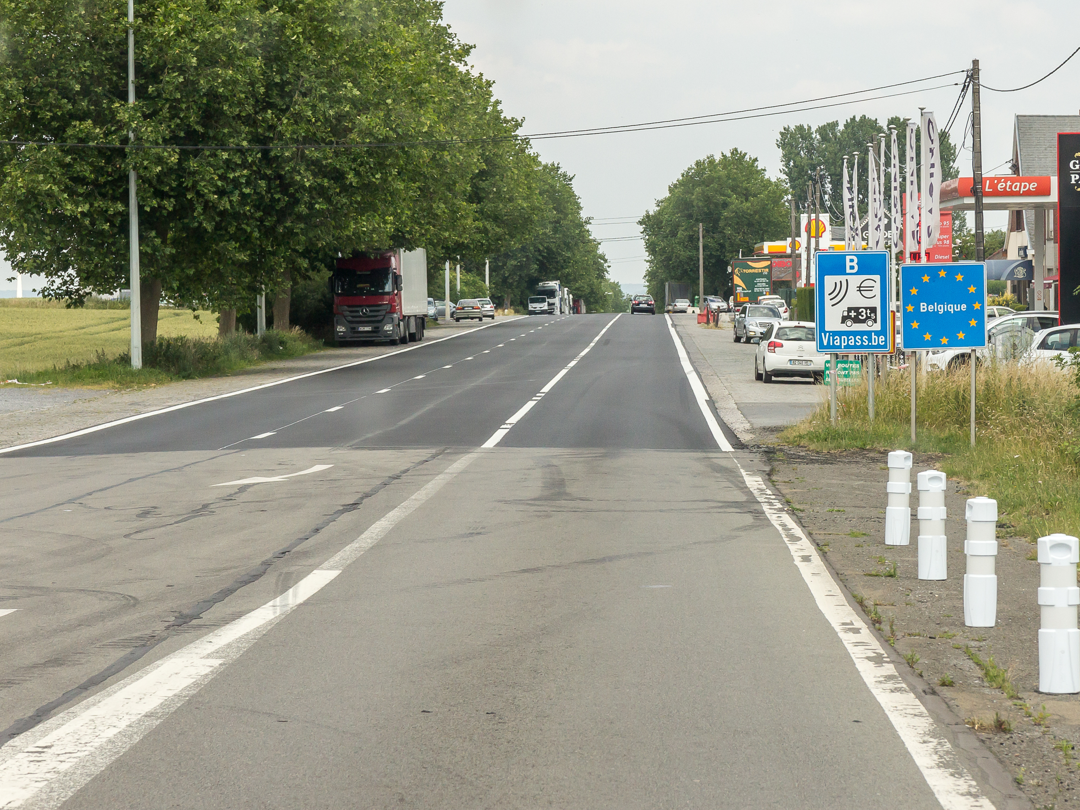 Border France-Belgium at Bettignies, France. French side: Route nationale 2 (N2, RN2), Belgian side: Route nationale 6 (N6).